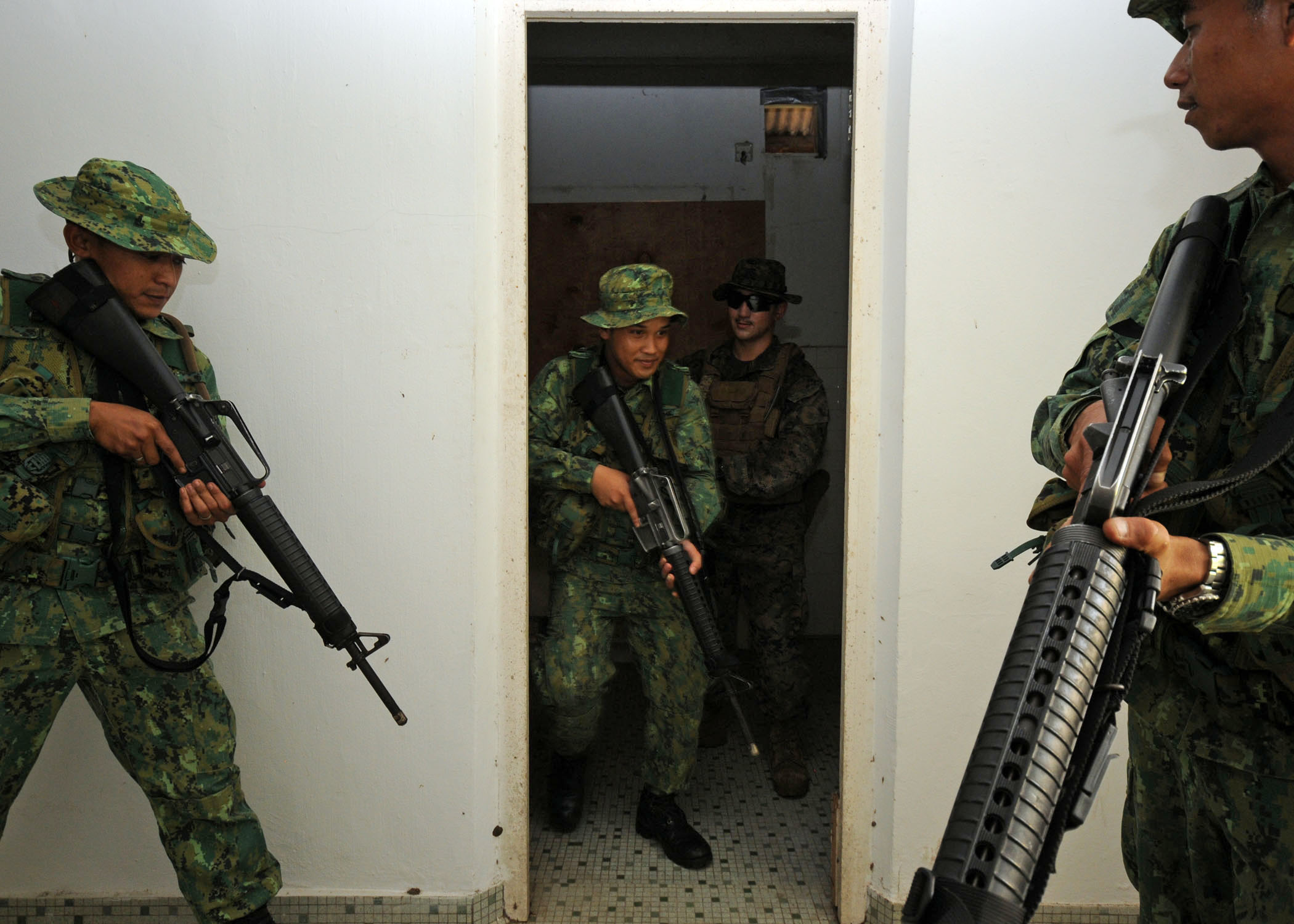 111002-N-KK935-056 SERIA, Brunei (Oct. 2, 2011) Cpl. Richard Macias, assigned to Fleet Anti-terrorism Security Team, Pacific Company (FASTPAC), 1 Platoon, observes as Royal Brunei Land Forces members practice clearing a space during Military Operations on Urban Terrain (MOUT) training. FASTPAC is conducting combined training with the Royal Brunei Land Forces as part of Cooperation Afloat Readiness and Training (CARAT) Brunei 2011. CARAT is a series of bilateral exercises held annually in Southeast Asia to strengthen relationships and to enhance force readiness. (U.S. Navy photo by Mass Communication Specialist 2nd Class Jessica Bidwell/Released).